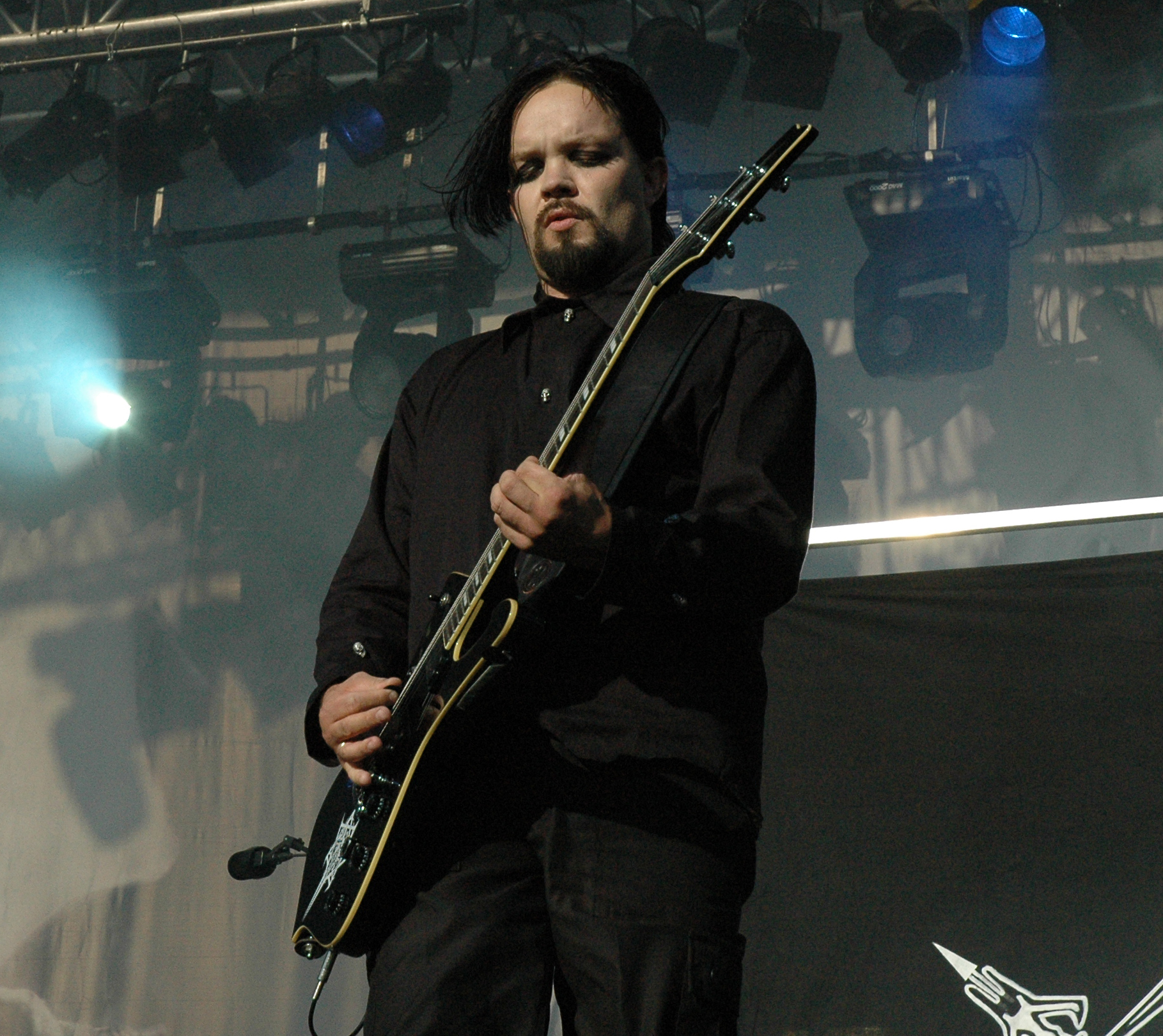 Guitarist Anders Odden with Celtic Frost in Finland